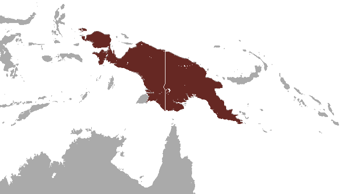 Steadfast Tube-nosed Fruit Bat (Paranyctimene tenax) range